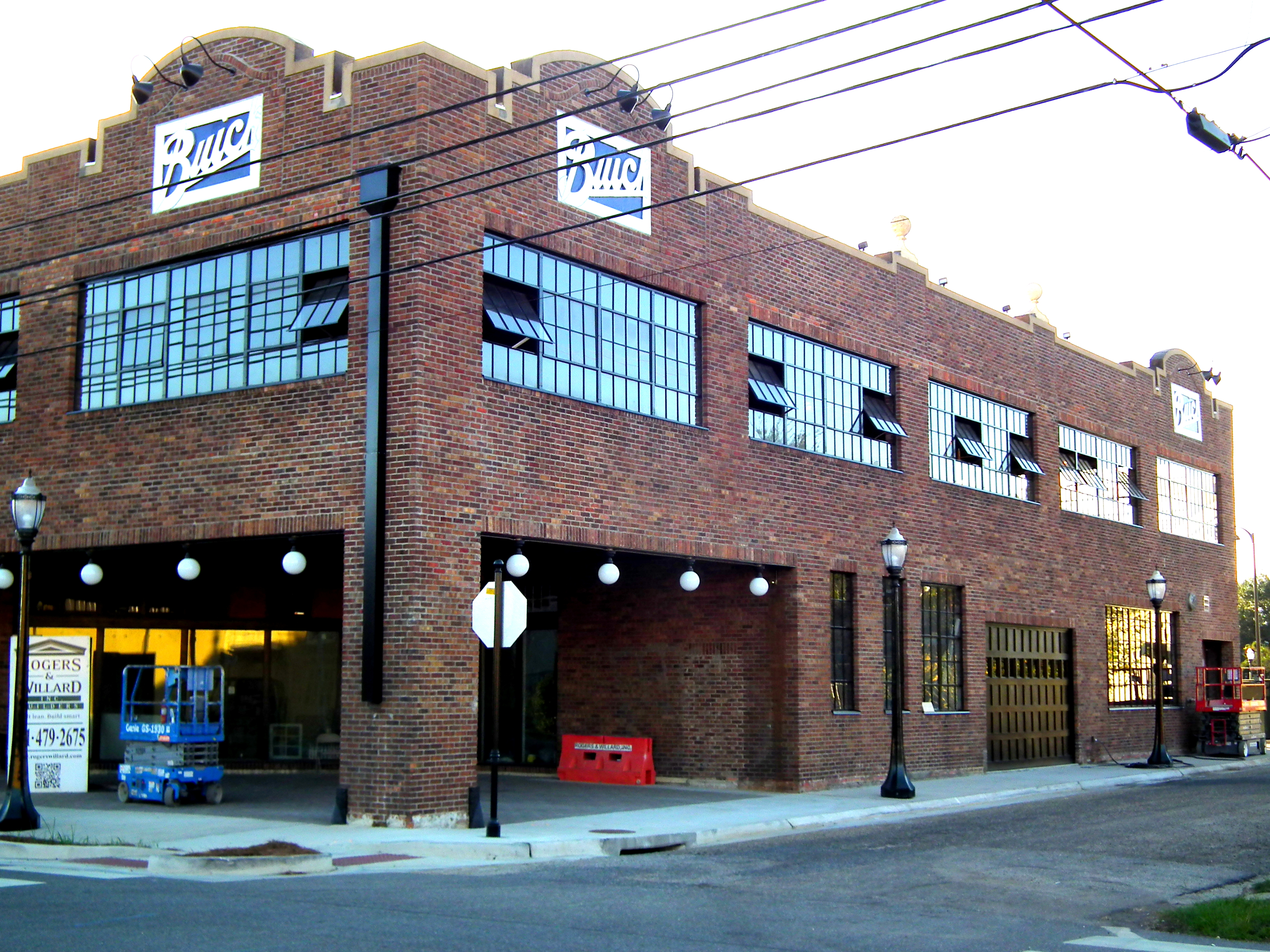 Photo of the Turner Todd Motor Company building in October, 2015 during renovations.